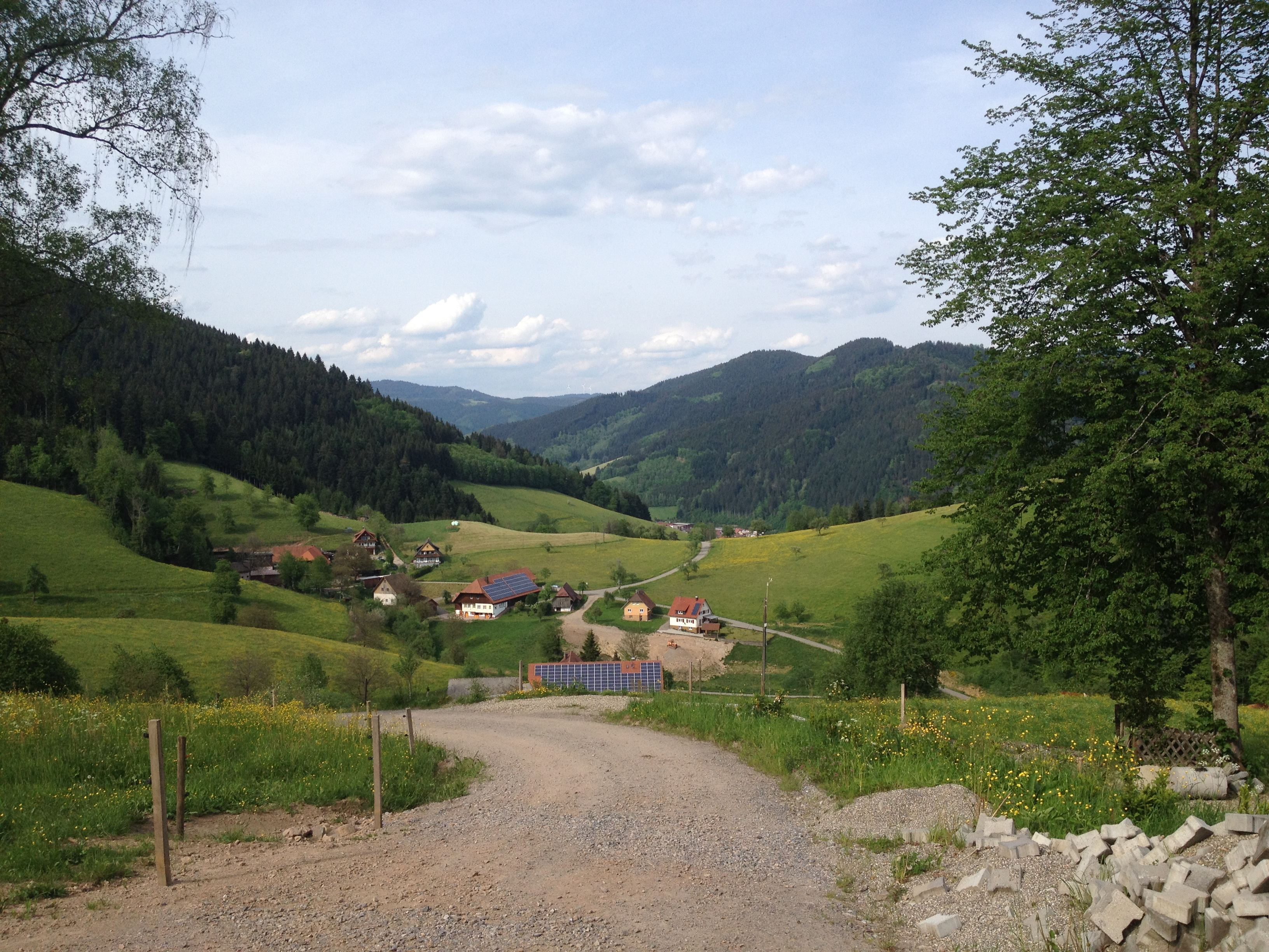 landscape Oberwolfach